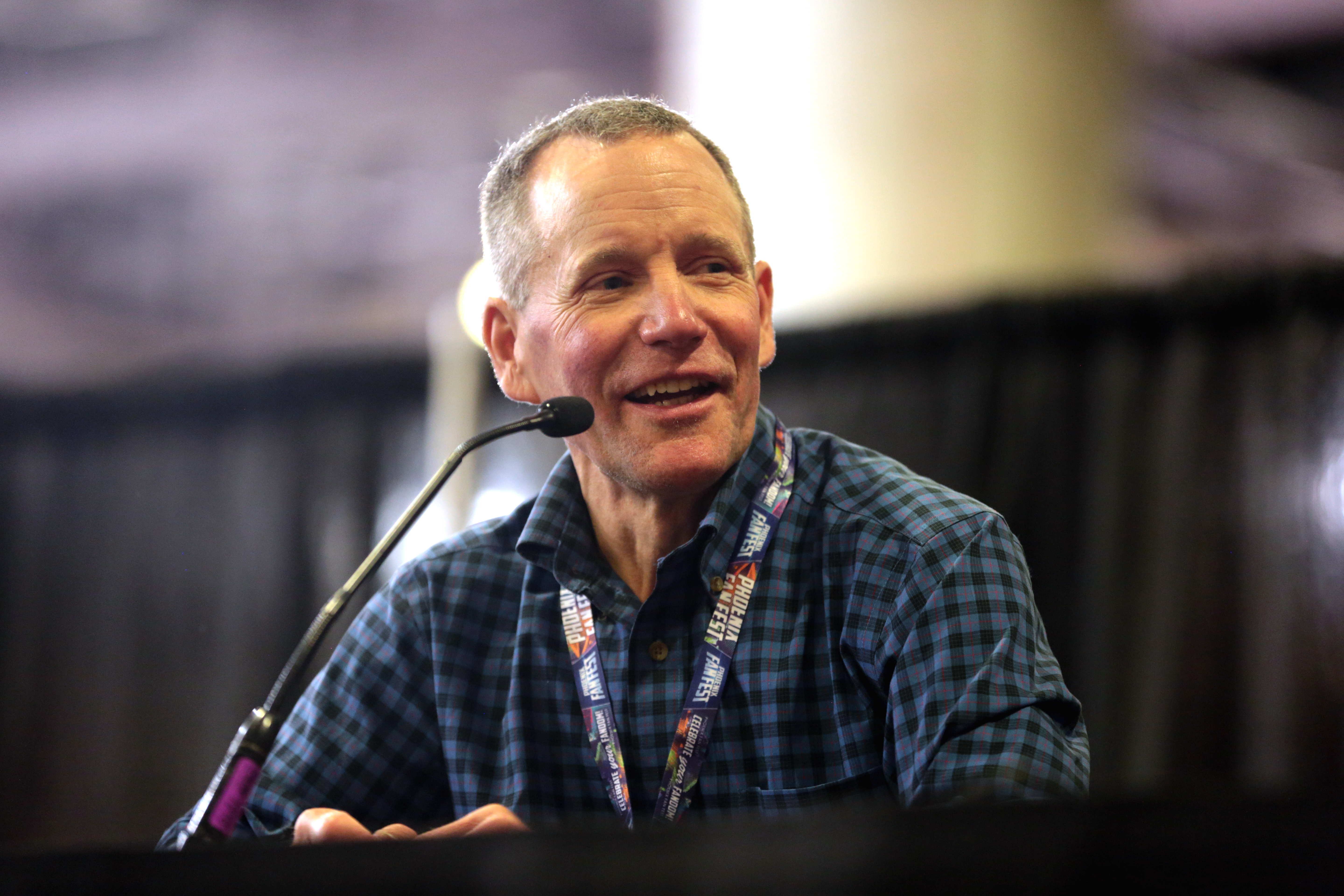 Peter Ostrum of "Willy Wonka & the Chocolate Factory" speaking with attendees at the 2017 Phoenix Comicon Fan Fest at the Phoenix Convention Center in Phoenix, Arizona.